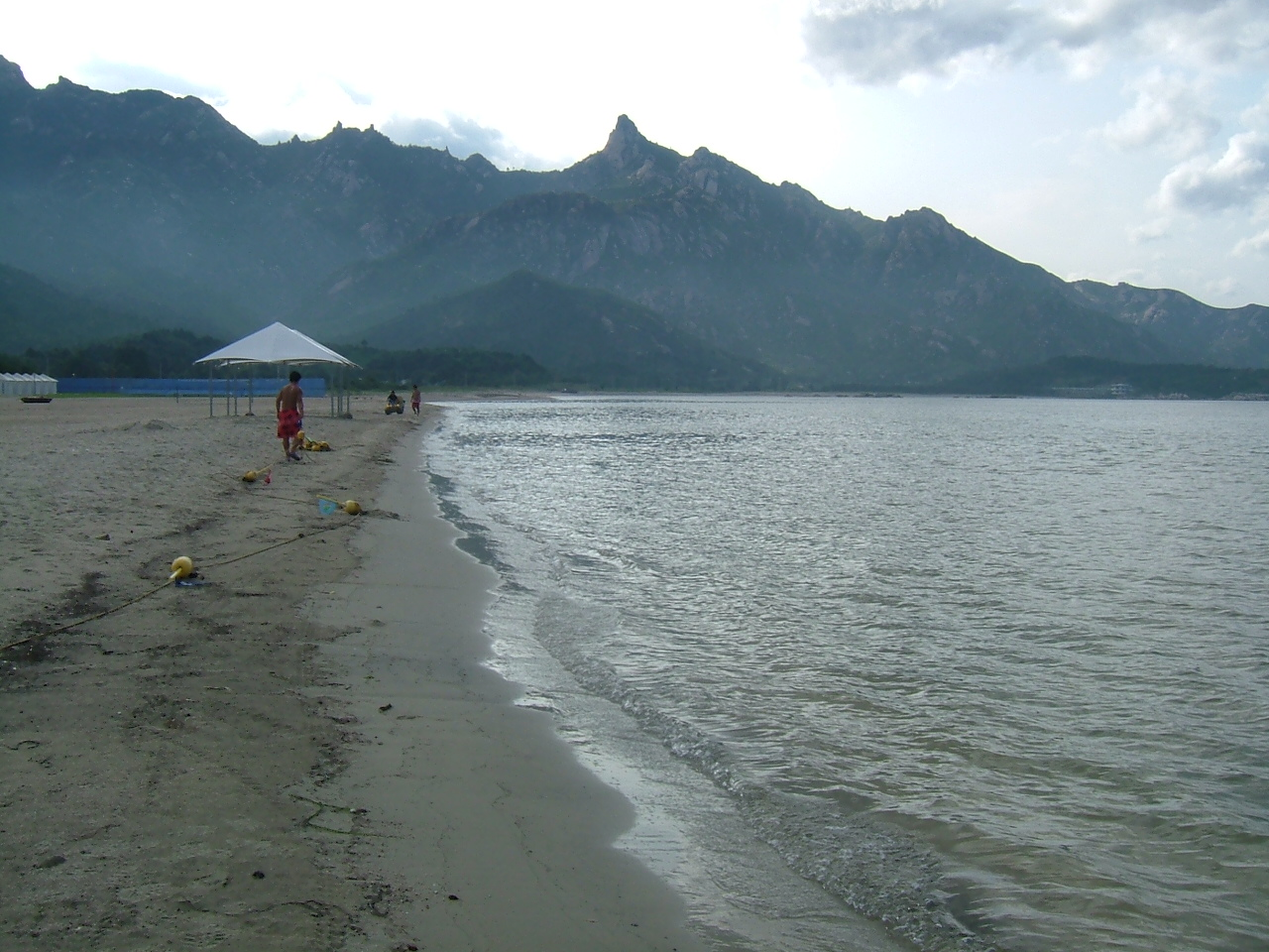 Kumgangsan beach